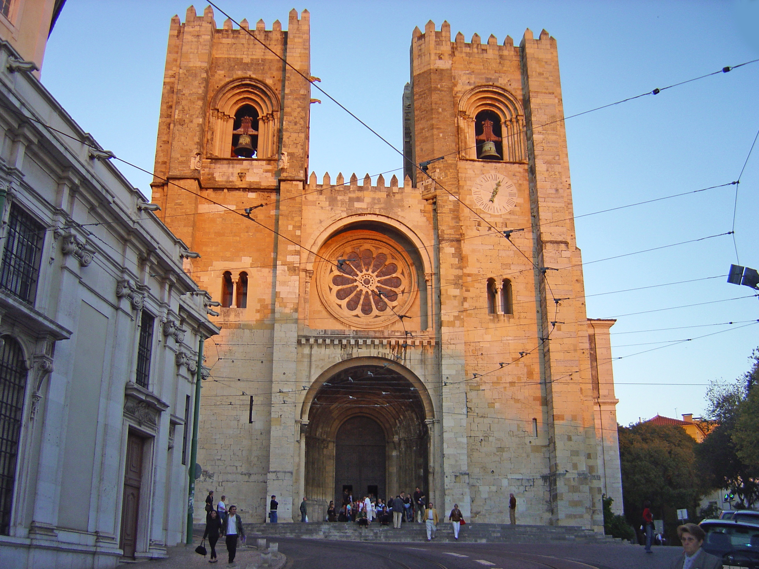 Sé Cathedral, Lisbon, Portugal